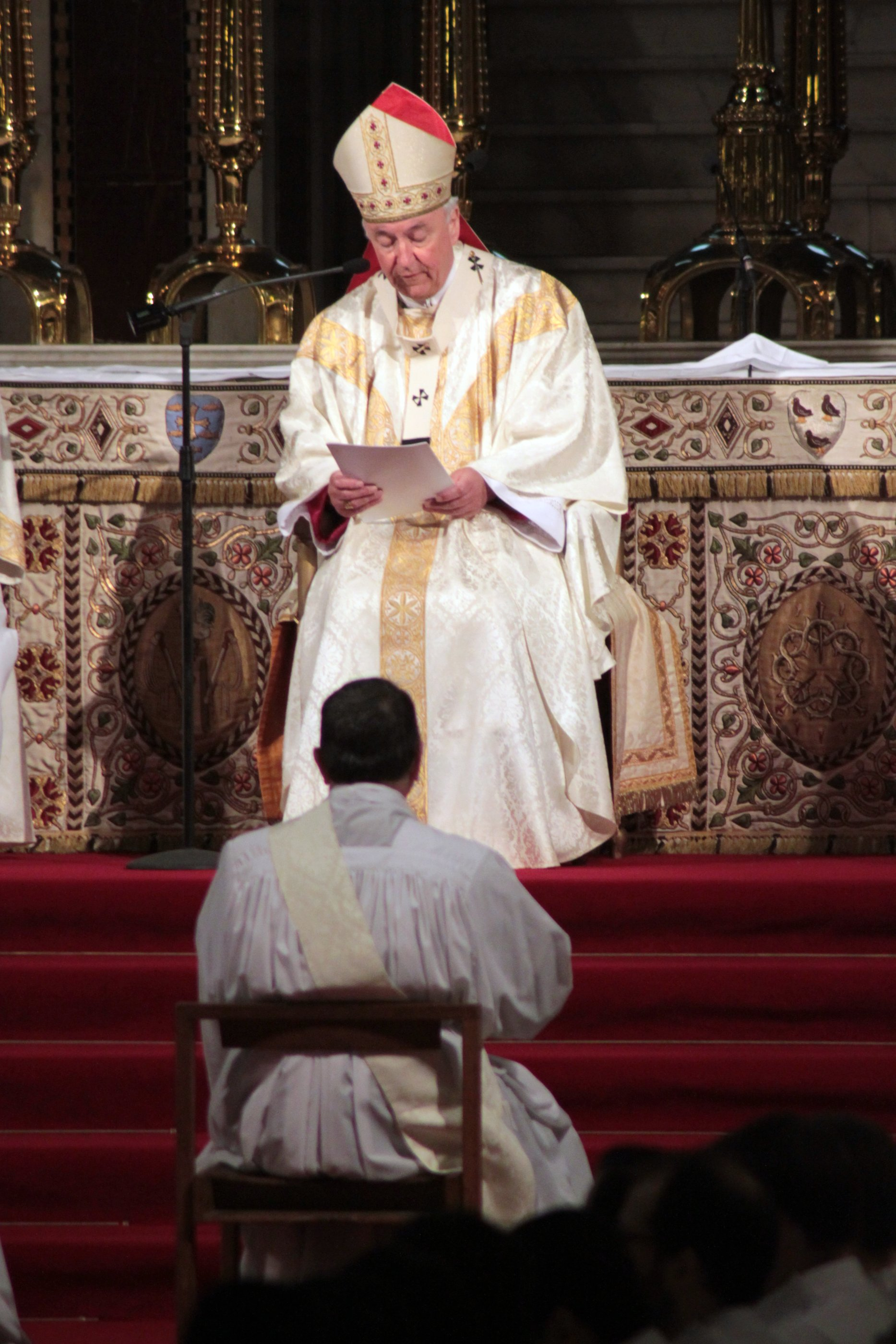 Archbishop Vincent Nichols gives the homily with the Revd Keith Newton in the foreground